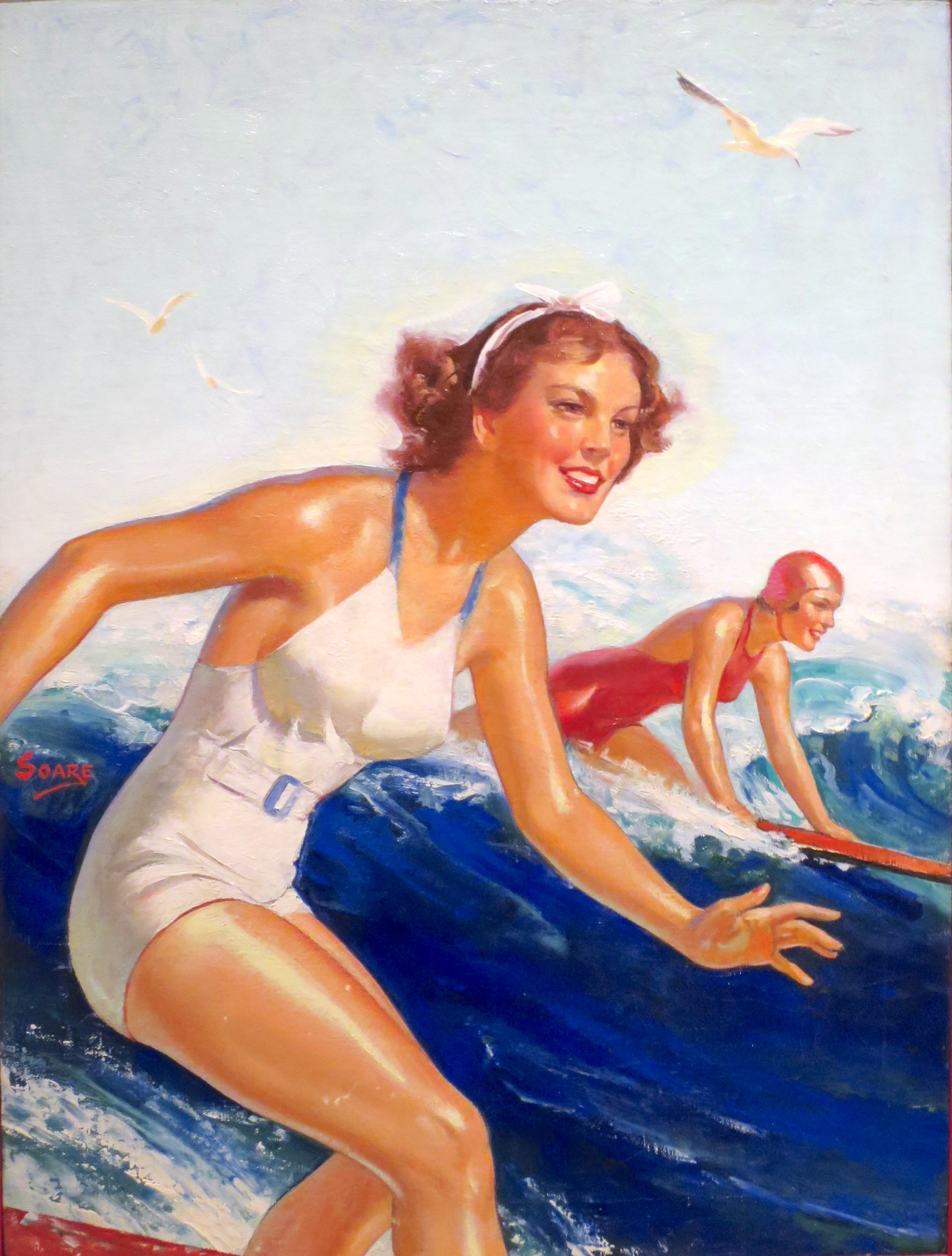 'Two Surfer Girls' by William Fulton Soare, oil on canvas, c. 1935, private collection